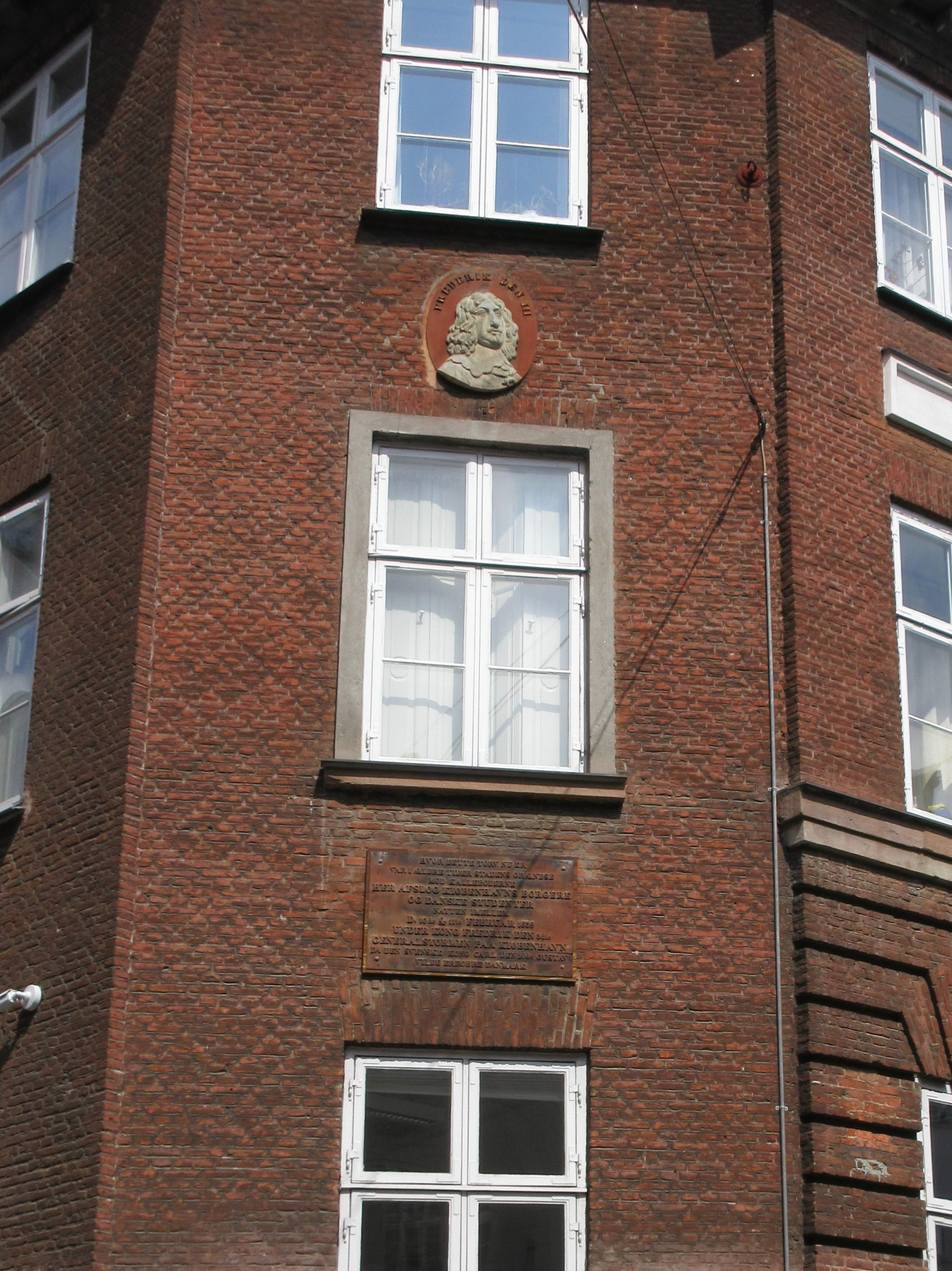 Ordings Gård in Copenhagen, Denmark